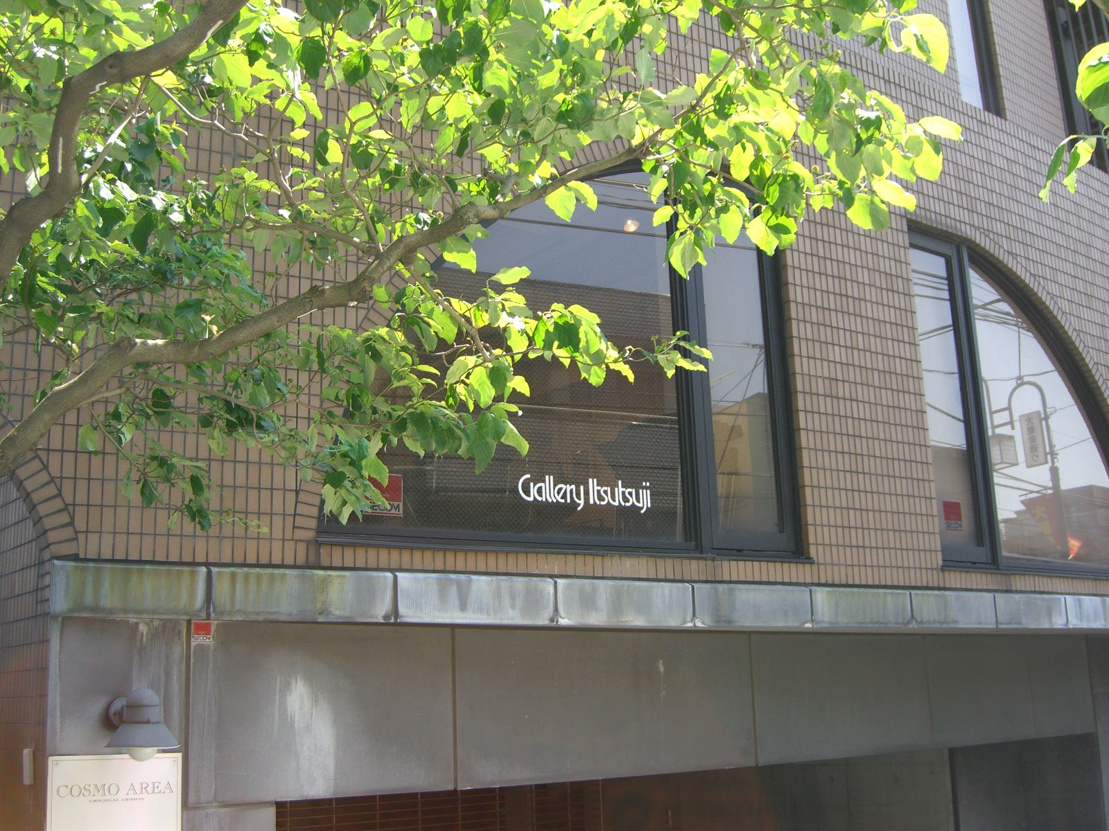 Entrance Gallery Itsutsuji